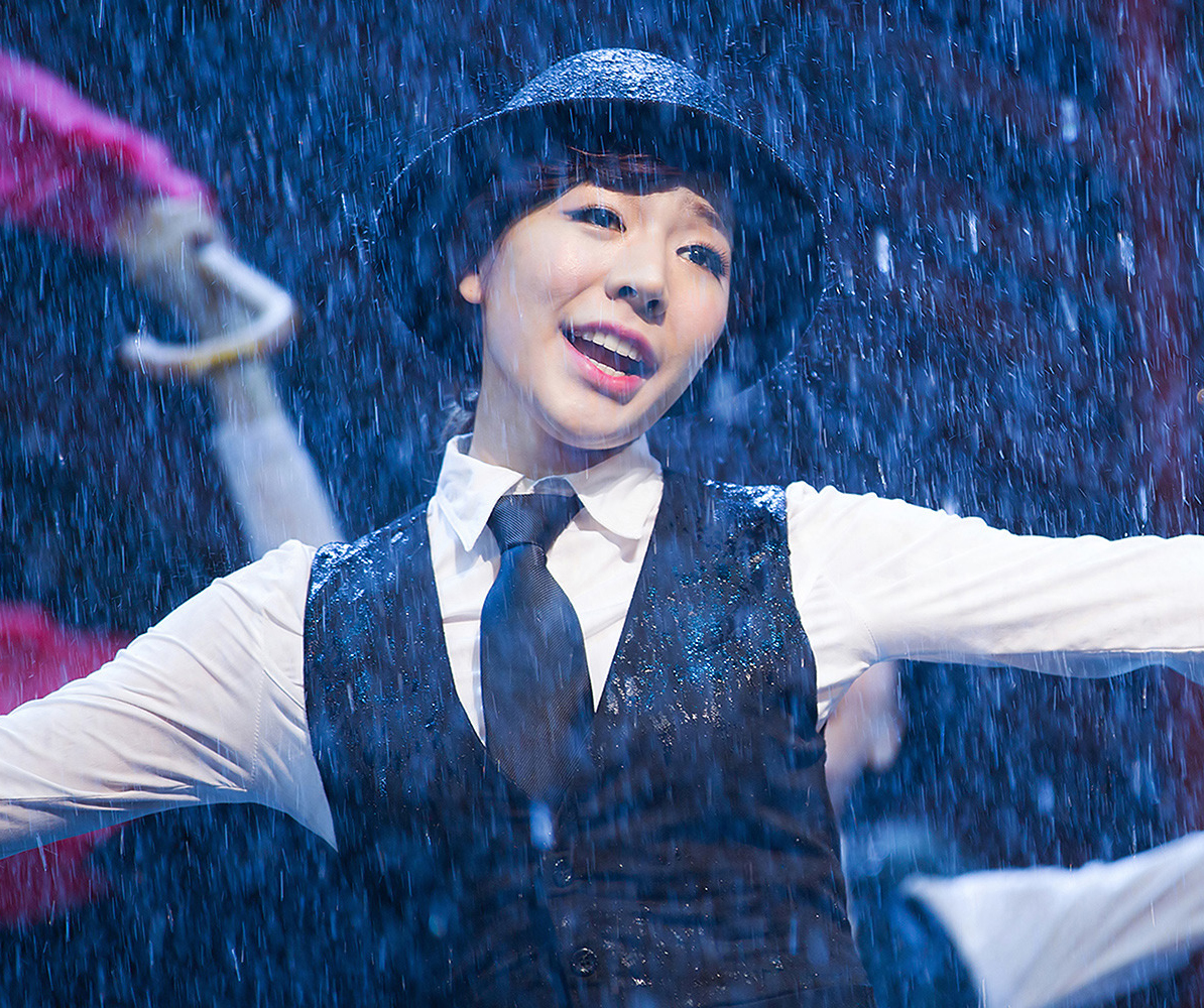 Sunny in July 2014, performing "Singin' in the Rain" musical